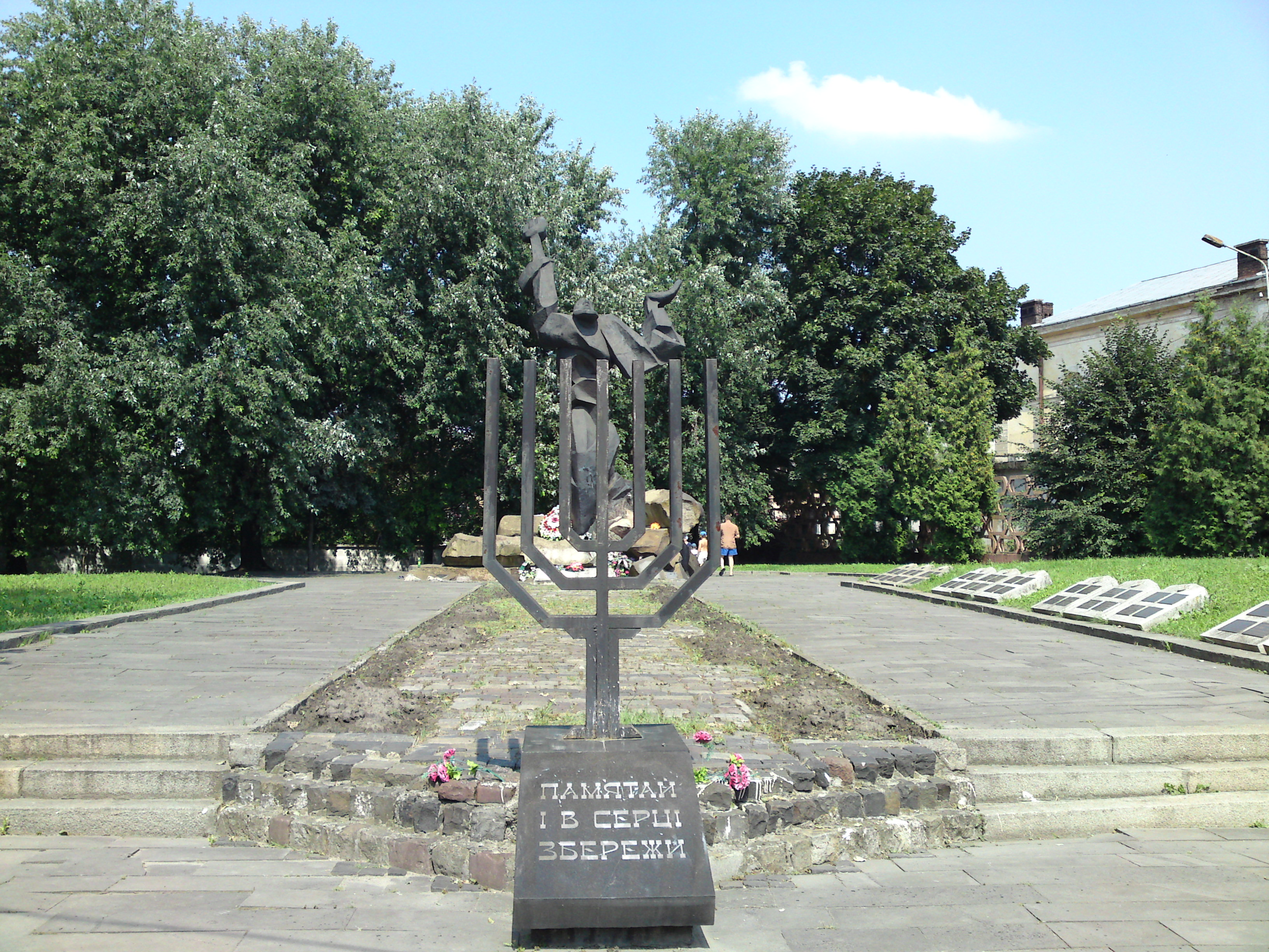 Holocaust monument in Lviv